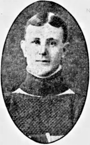 Canadian ice hockey player Owen McCourt (1884-1907) who died on March 7, 1907 after having been struck in the head by a hockey stick during a game the day before between Cornwall HC and Ottawa Victorias in the FAHL.